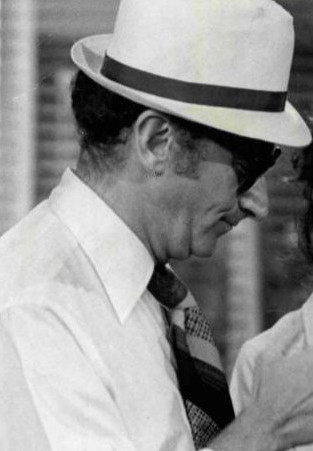 Scene from the television program Alice. From left: Lee Wallace, Beth Howland (Vera) and Linda Lavin (Alice).